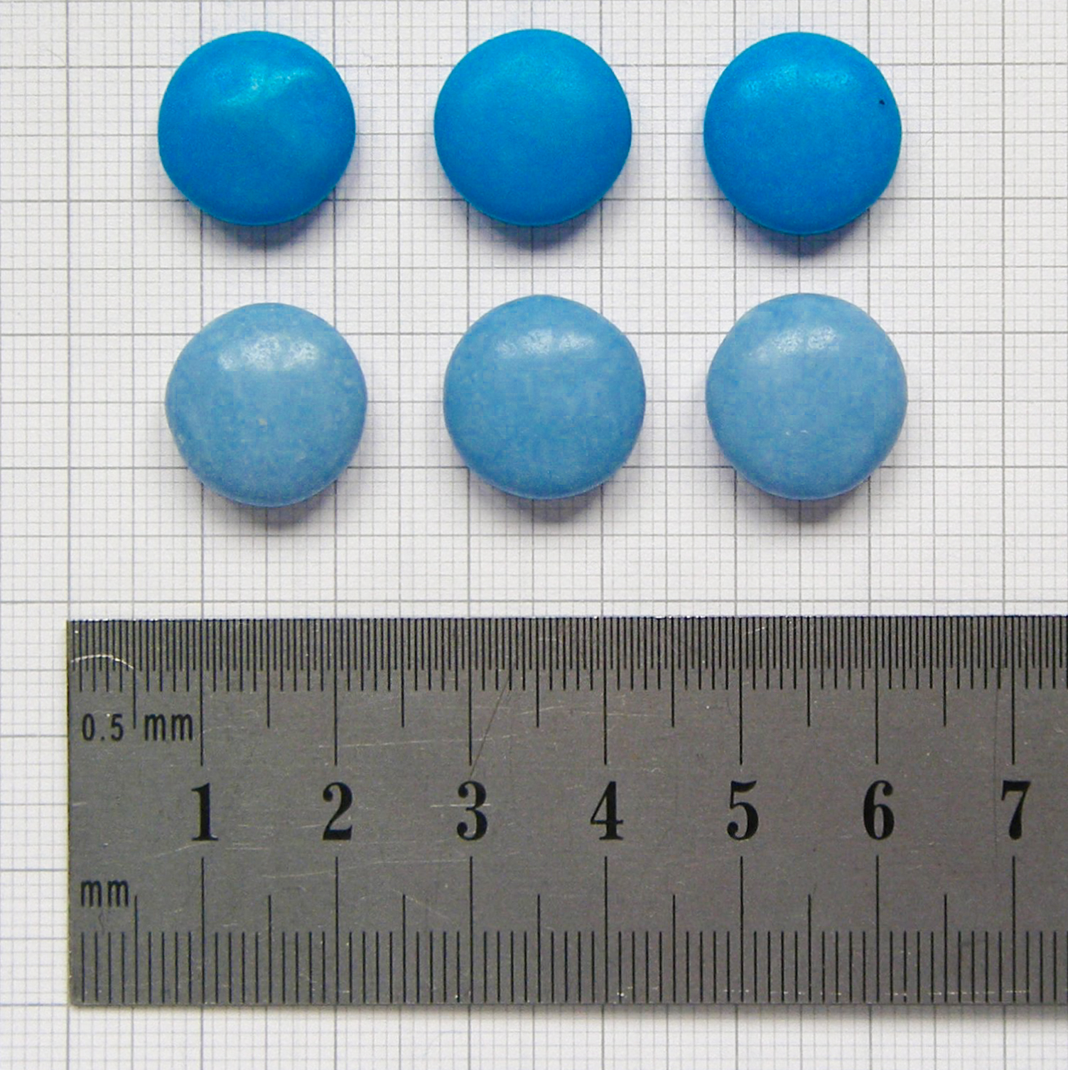 Photograph of blue Nestlé Smarties as sold in the UK, before (top, dating from 2006) and after (2008, bottom) change to natural colours. Background is 1mm grid.